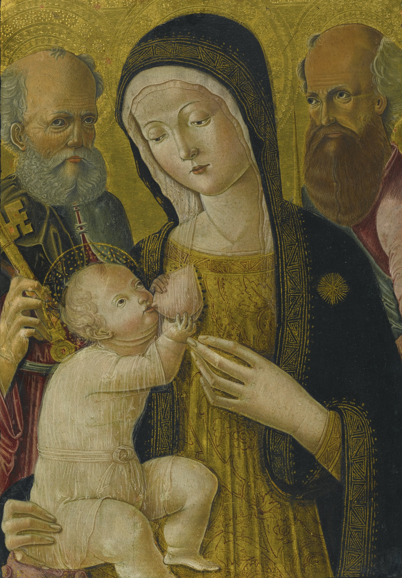 PIETRO DI DOMENICO, SIENA CIRCA 1457 - CIRCA 1533, THE MADONNA AND CHILD WITH SAINTS PETER AND PAUL, inscribed on the reverse in a late 19th-century (?) hand: Pietro di Domenico of Siena, tempera on panel, marouflaged, gold ground, overall: 52.4 by 36.8 cm; painted surface: 50.2 by 34.3 cm.